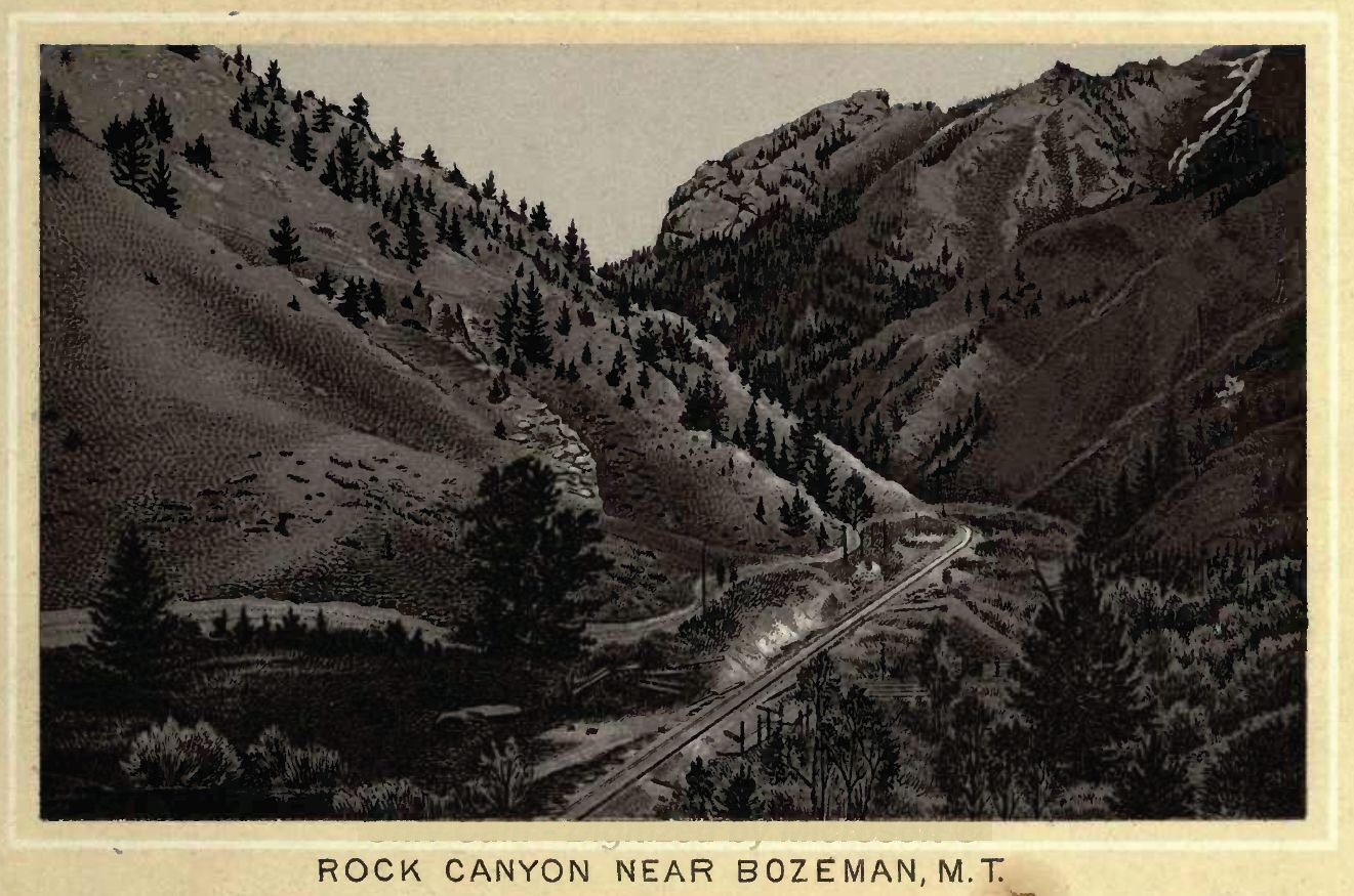 Bozeman Pass circa 1884. Artwork of Bozeman Pass in Montana. From a book on the history of the Northern Pacific Railroad.